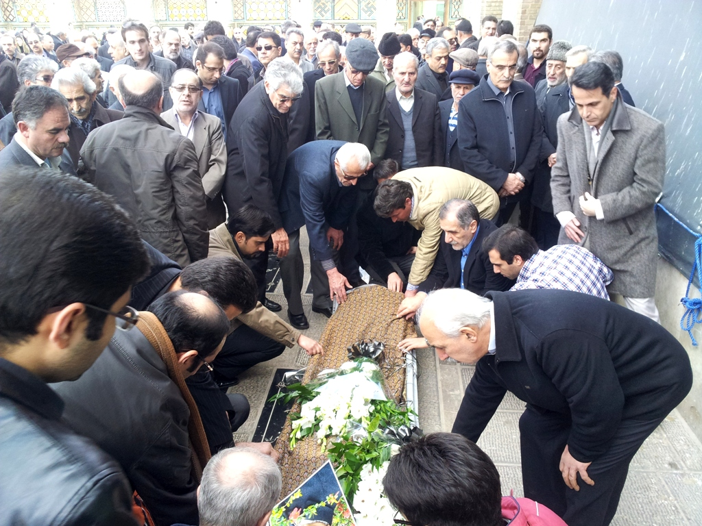 تشییع استاد محمدباقر آصف زاده از مقابل امامزاده حسین ابن علی ابن موسی الرضا (ع)، 6 بهمن 1391